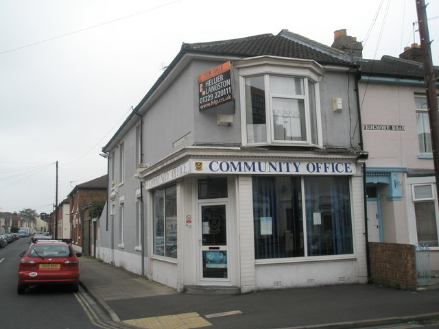 Formerly Portsmouth FC Community Office